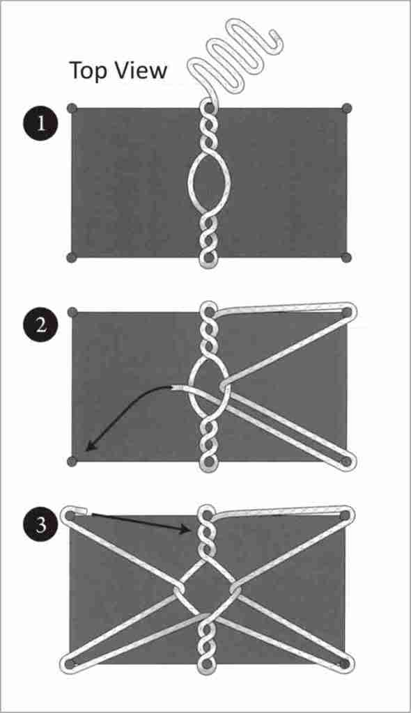 Procedure to tie a diamond hitch